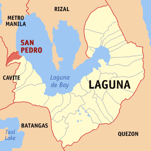 Locator map of San Pedro in Laguna, Philippines.